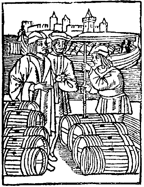 Wine merchands XVe